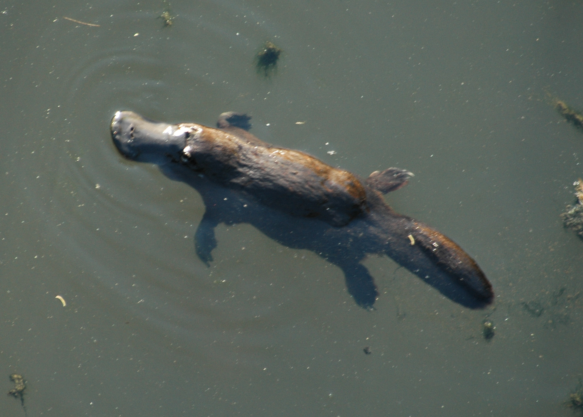 Ornithorhynchus anatinus: Swimming Platypus. Location: Broken River-Queensland-Australia